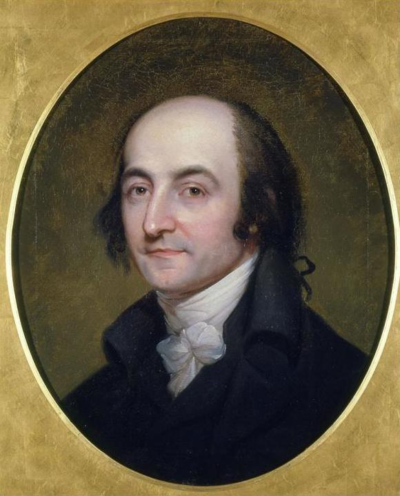 Albert Gallatin, by Rembrandt Peale, from life, 1805